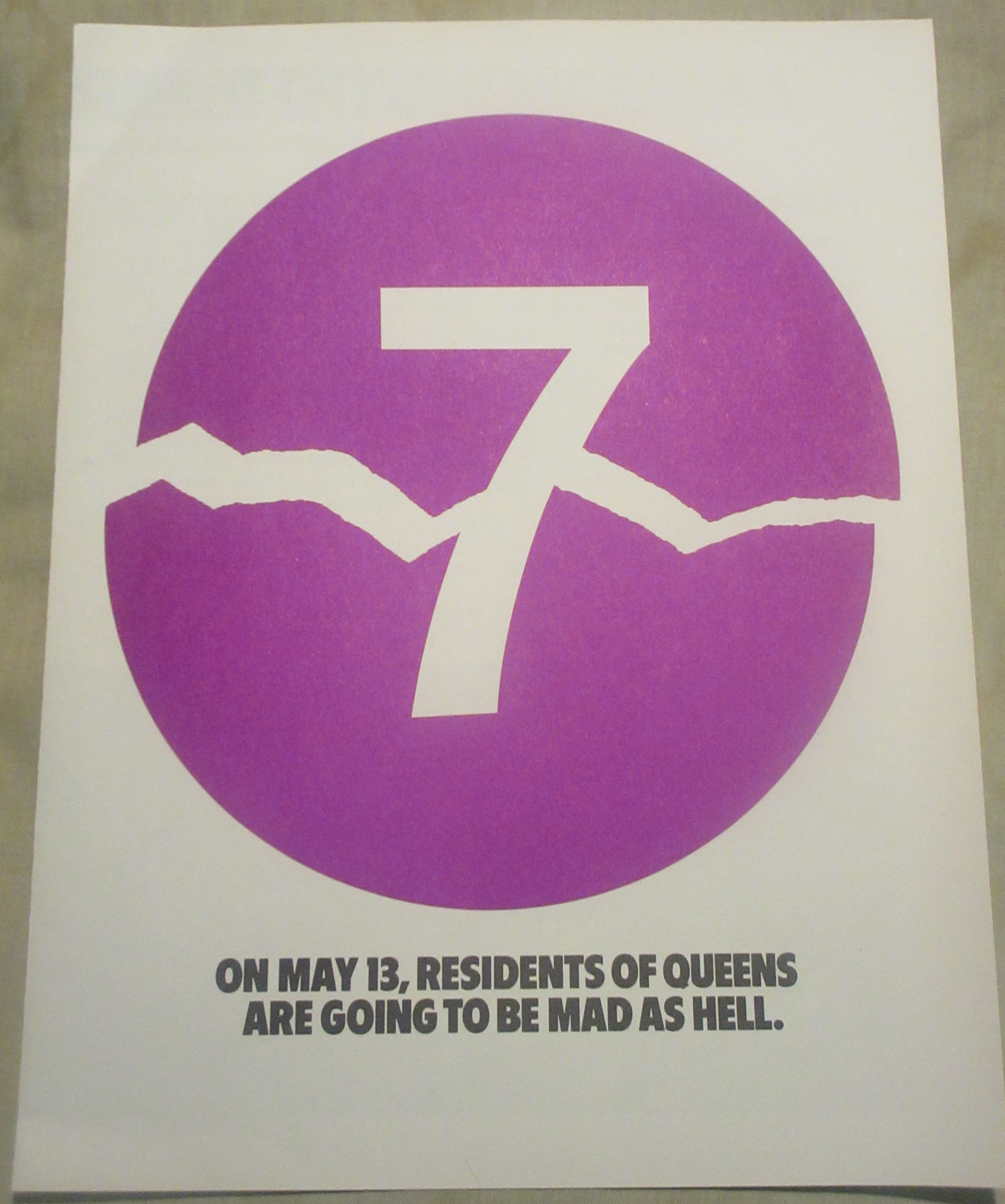 This provocative brochure was issued to inform Flushing Line riders of planned disruptions to subway service for a few years. This work is in the public domain because it was published in the United States between 1978 and March 1, 1989 without a copyright notice, and its copyright was not subsequently registered with the U.S. Copyright Office within 5 years. Unless its author has been dead for several years, it is copyrighted in the countries or areas that do not apply the rule of the shorter term for US works, such as Canada (50 pma), Mainland China (50 pma, not Hong Kong or Macau), Germany (70 pma), Mexico (100 pma), Switzerland (70 pma), and other countries with individual treaties. See this page for further explanation.